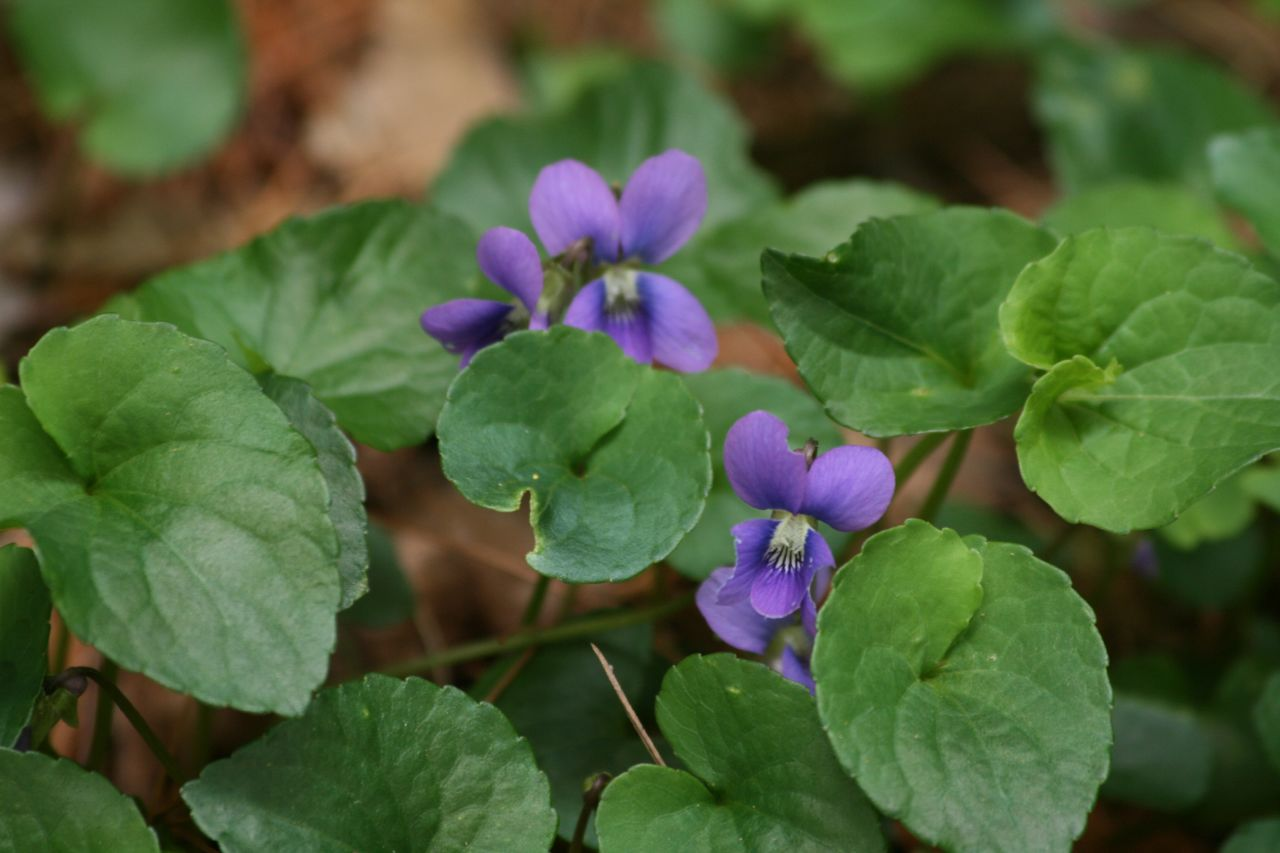 Marsh Blue Violet (Viola cucullata) in our back yard